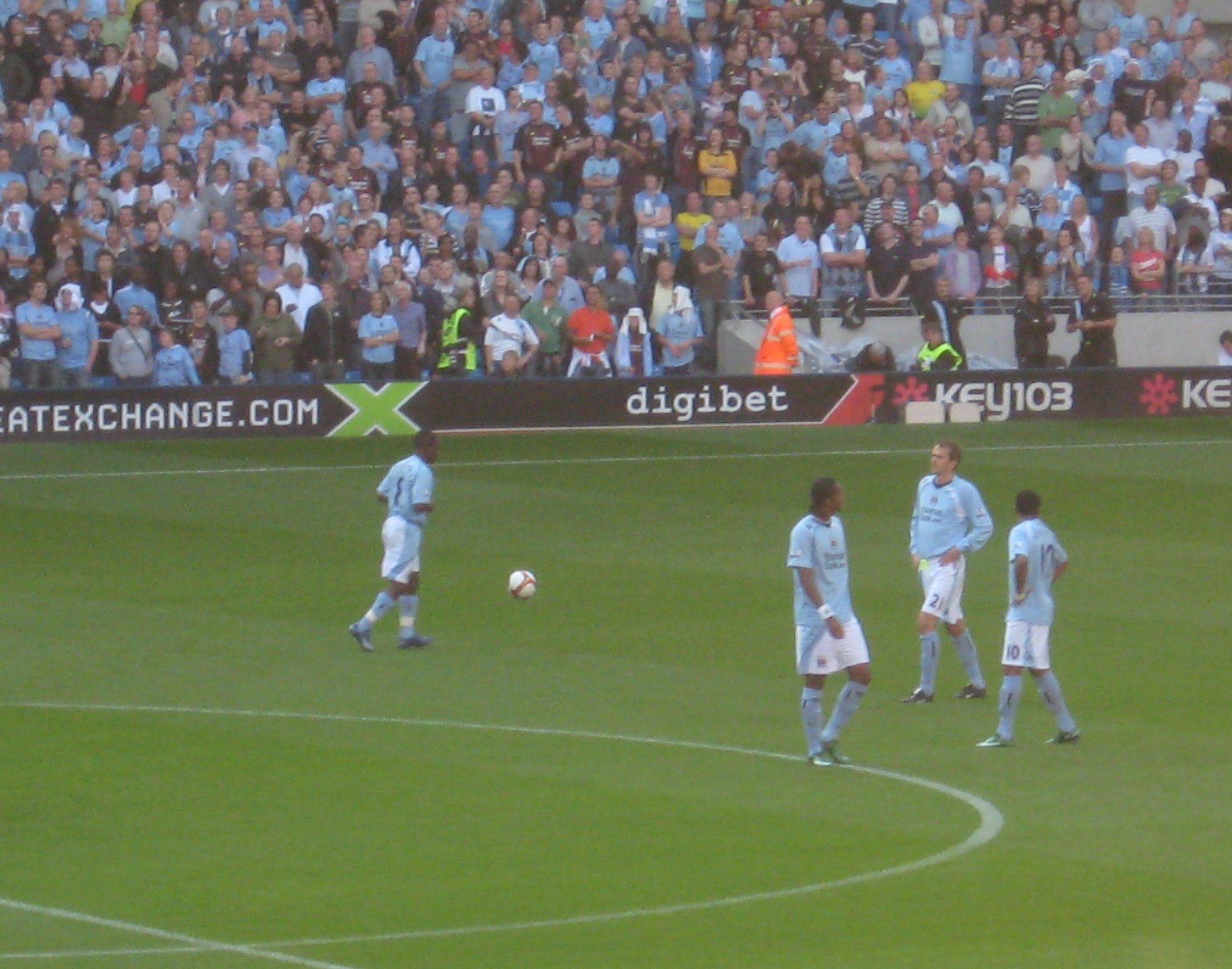 Manchester City players warm up for a Premier League match against Chelsea at the City of Manchester Stadium, 13 September 2008. Left to Right: Shaun Wright-Phillips, Jô, Dietmar Hamann, Robinho.